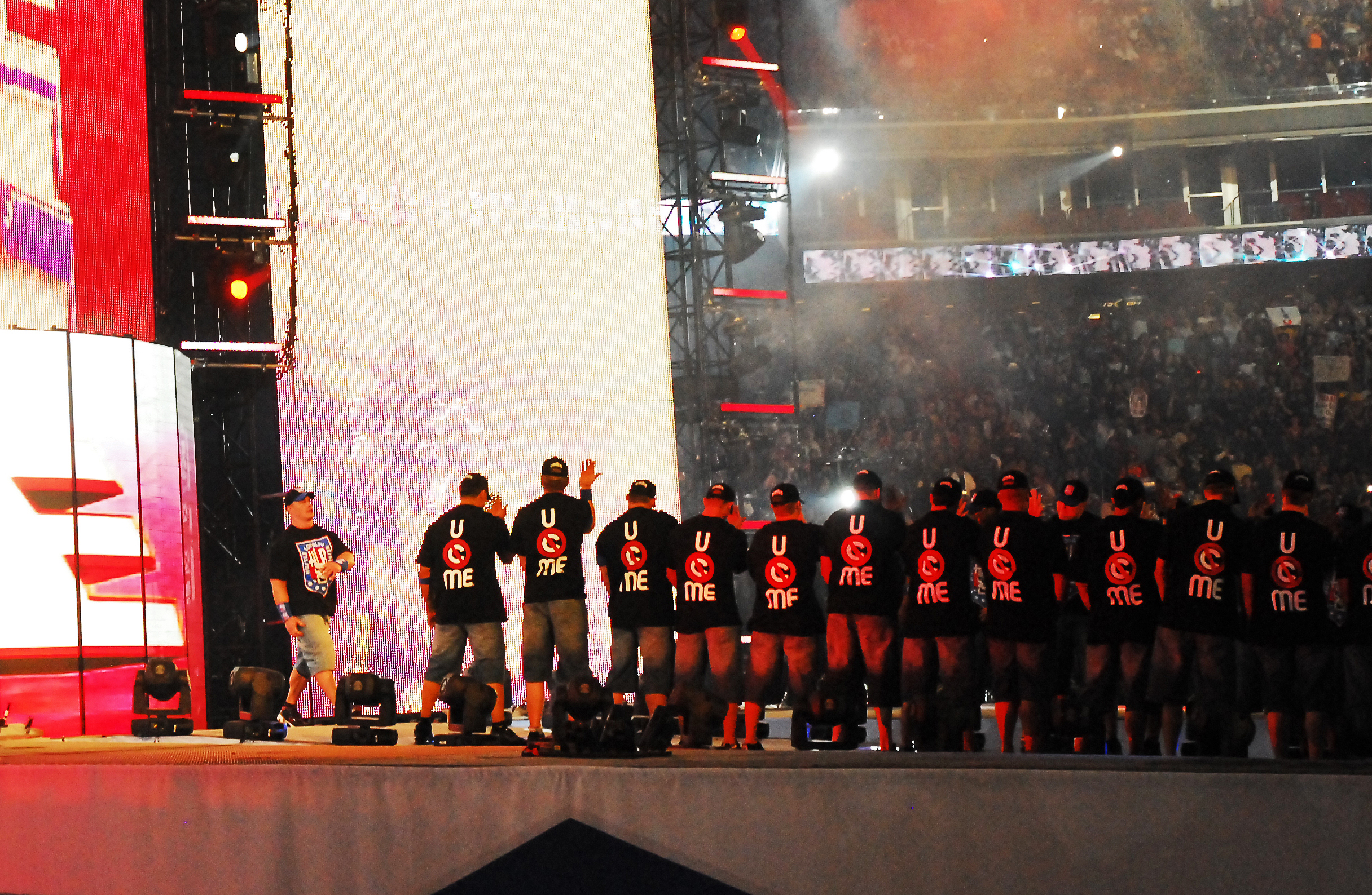 John Cena entrance in WrestleMania 25 between clones